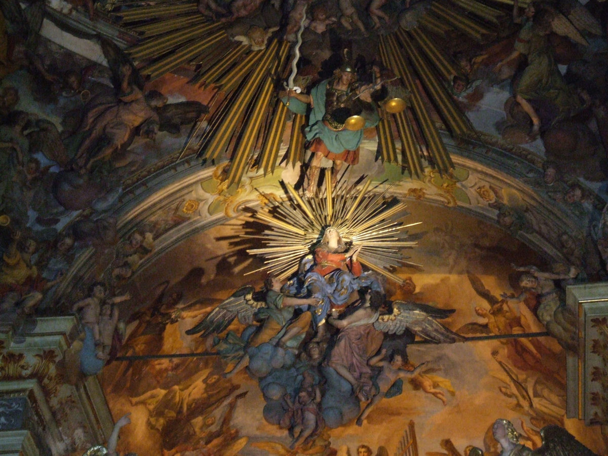 Sacro Monte di Varallo, Varallo Sesia, Italy; "Basilica dell'Assunta", The main alterpiece, statues of the Assumption of Mary